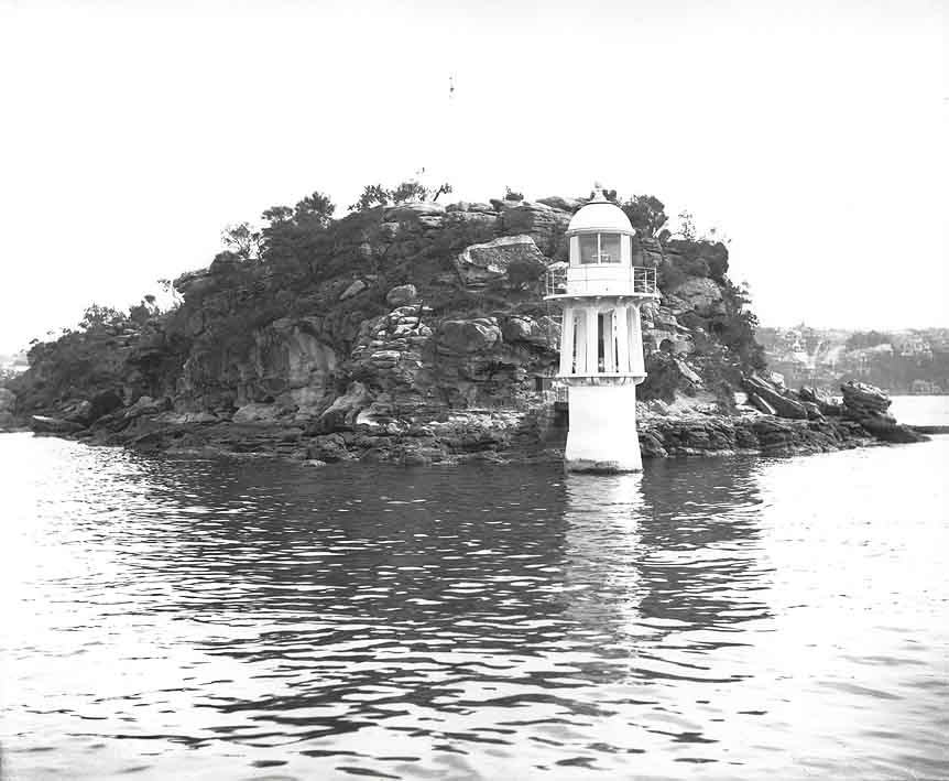 Historic view of lighthouse at Robertsons Point, Cremorne. Digital ID: 9856_a017_A017000019 Rights: We'd love to hear from you if you use our photos. Many other photos in our collection are available to view and browse on our website using Photo Investigator.